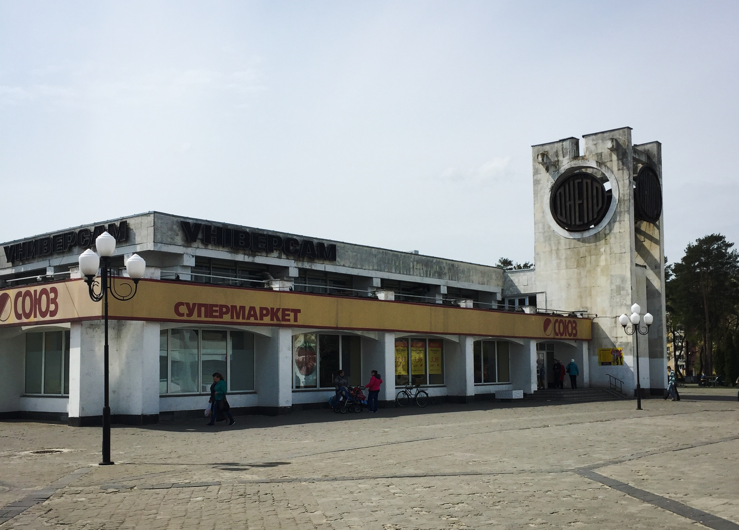 A supermarket in the centre of Slavutych